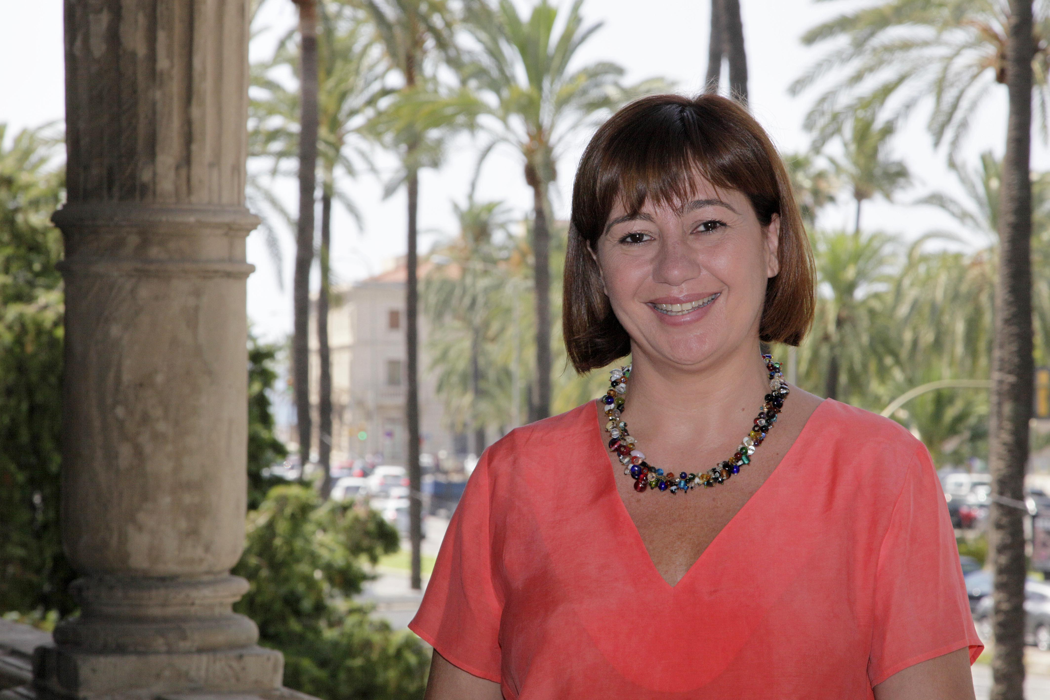 Official photo of Francina Armengol, president of the Government of the Balearic Islands.